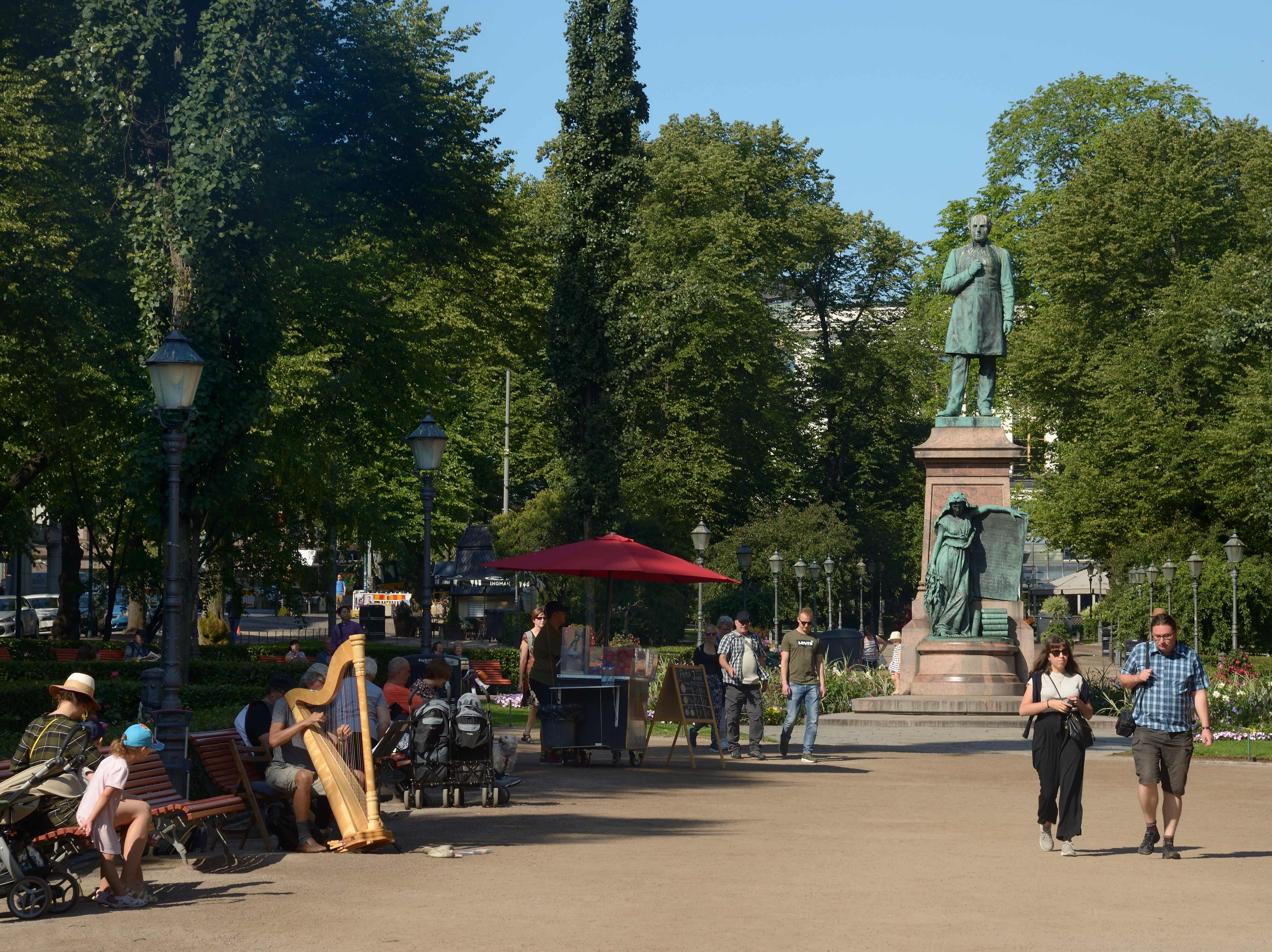 Statue of Johan Ludvig Runeberg on Esplanadi in Helsinki, Finland